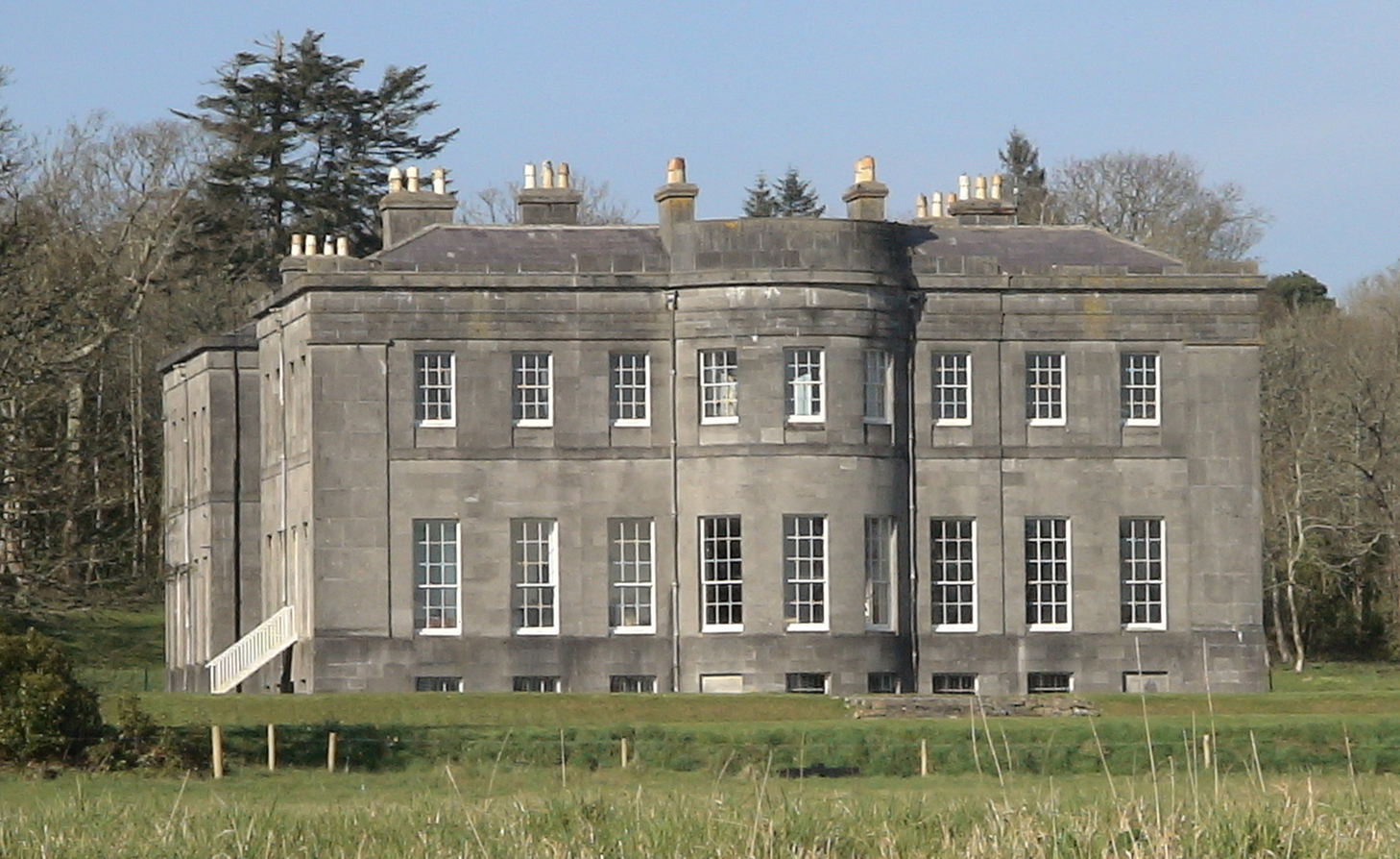 Lissadell House, Co. Sligo, Eire. Architect Francis Goodwin.